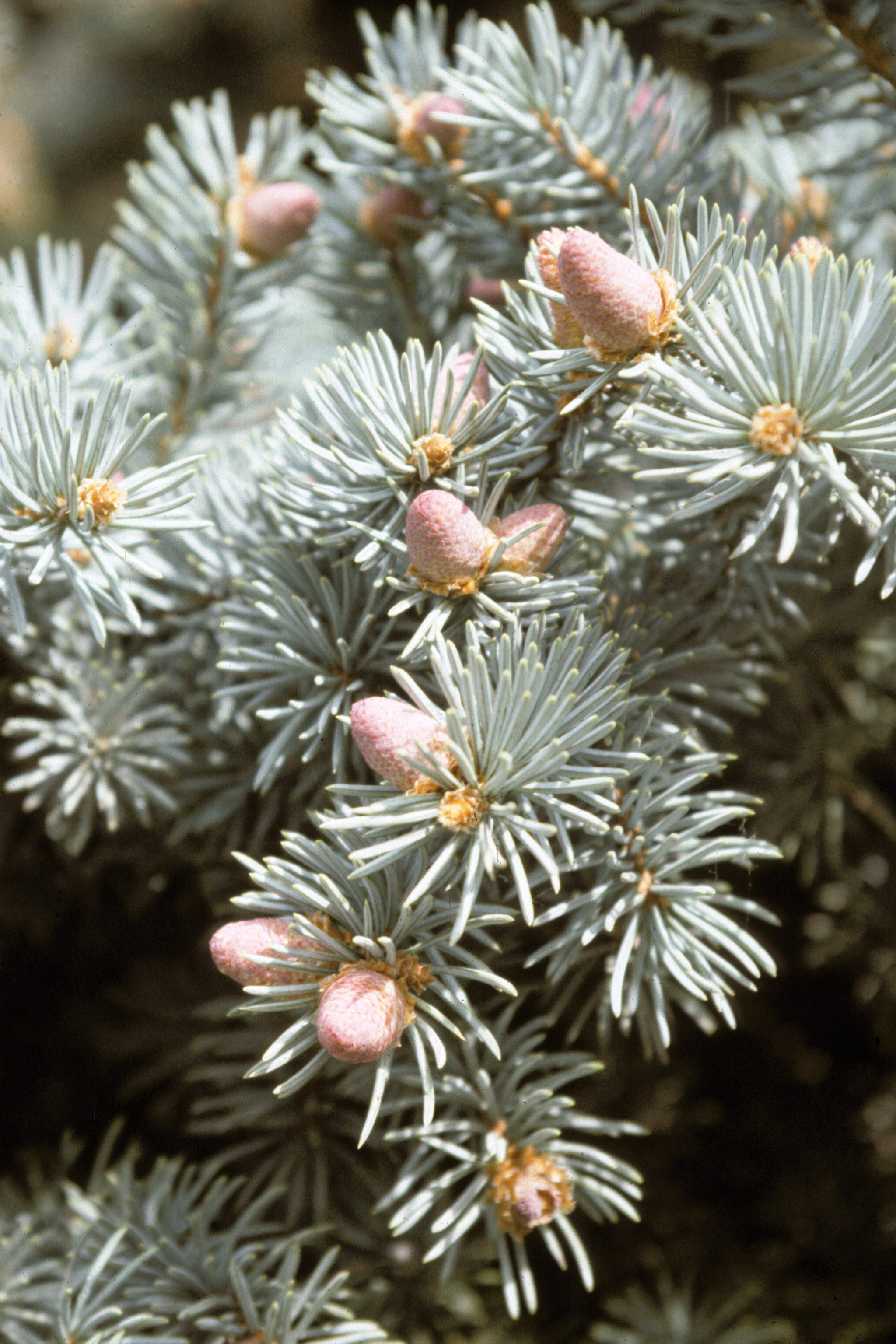 Picea pungens foliage and pollen cones. Rocky Mountain Region, USA.